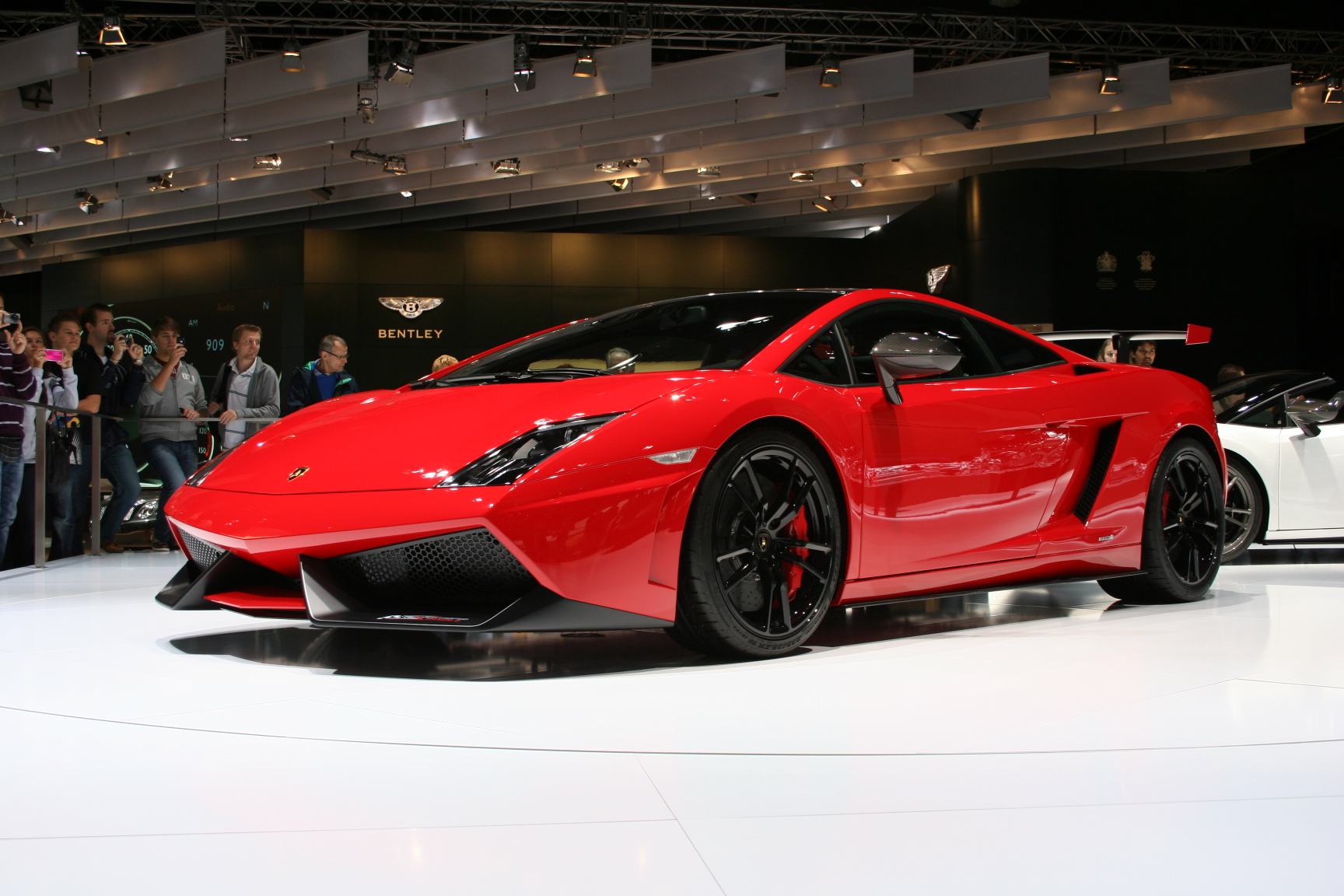 Red Lambroghini Gallardo LP 570-4 Super Trofeo Stradale at IAA 2011. View: front left